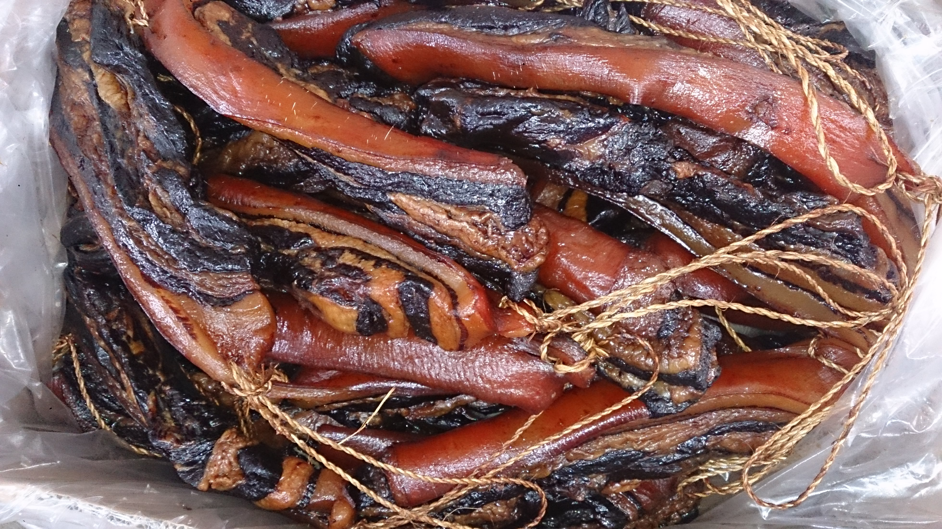 Salt-preserved pork.They are usually called "waxed meat" (or "wax meat") because of the glossy look. No wax is actually used in the preparation process.